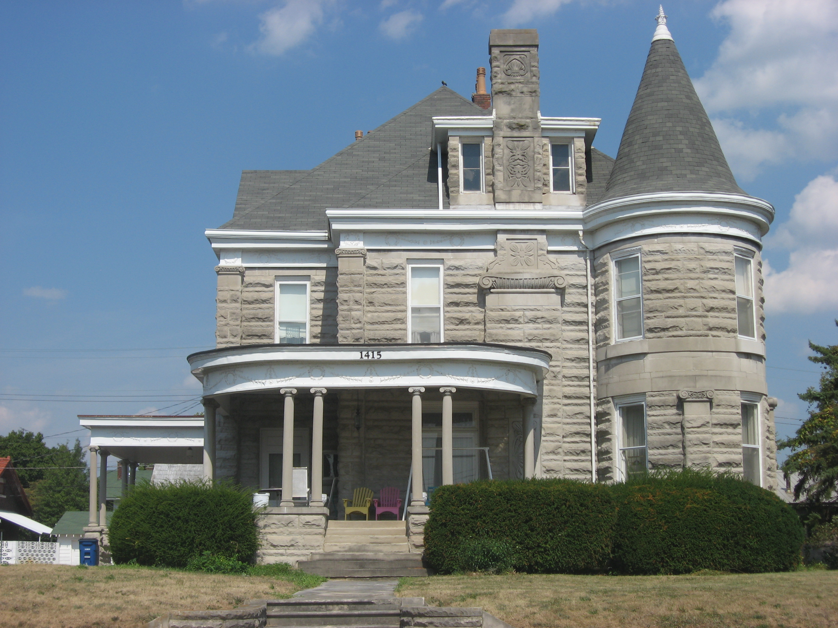 Front of the C.S. Norton Mansion, located at 1415 15th Street in Bedford, Indiana, United States. Built in 1897, it is listed on the National Register of Historic Places.